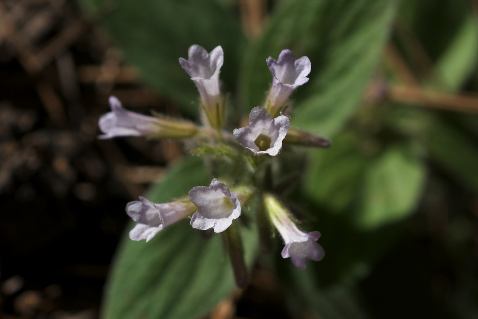 Photographed on CA120 right inside the main gate at Yosemite National Park